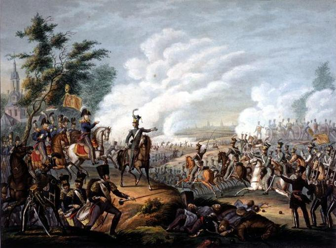 Victory near Leuven, 12 august 1831